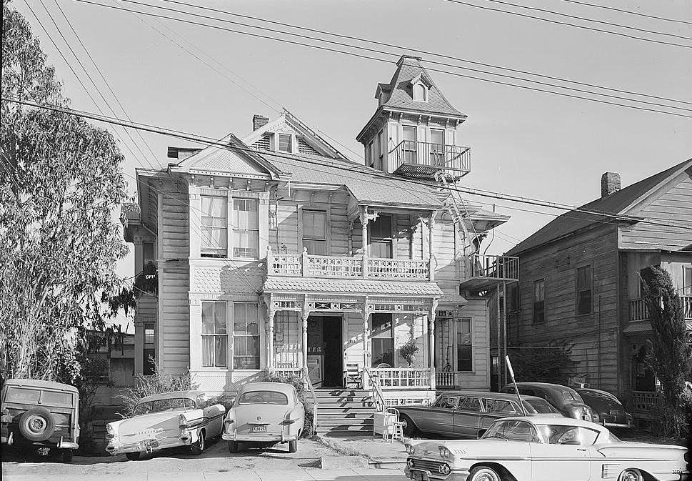 1. Historic American Buildings Survey Jack E. Boucher, Photographer October 1960 FRONT ELEVATION HABS CAL,19-LOSAN,23-1